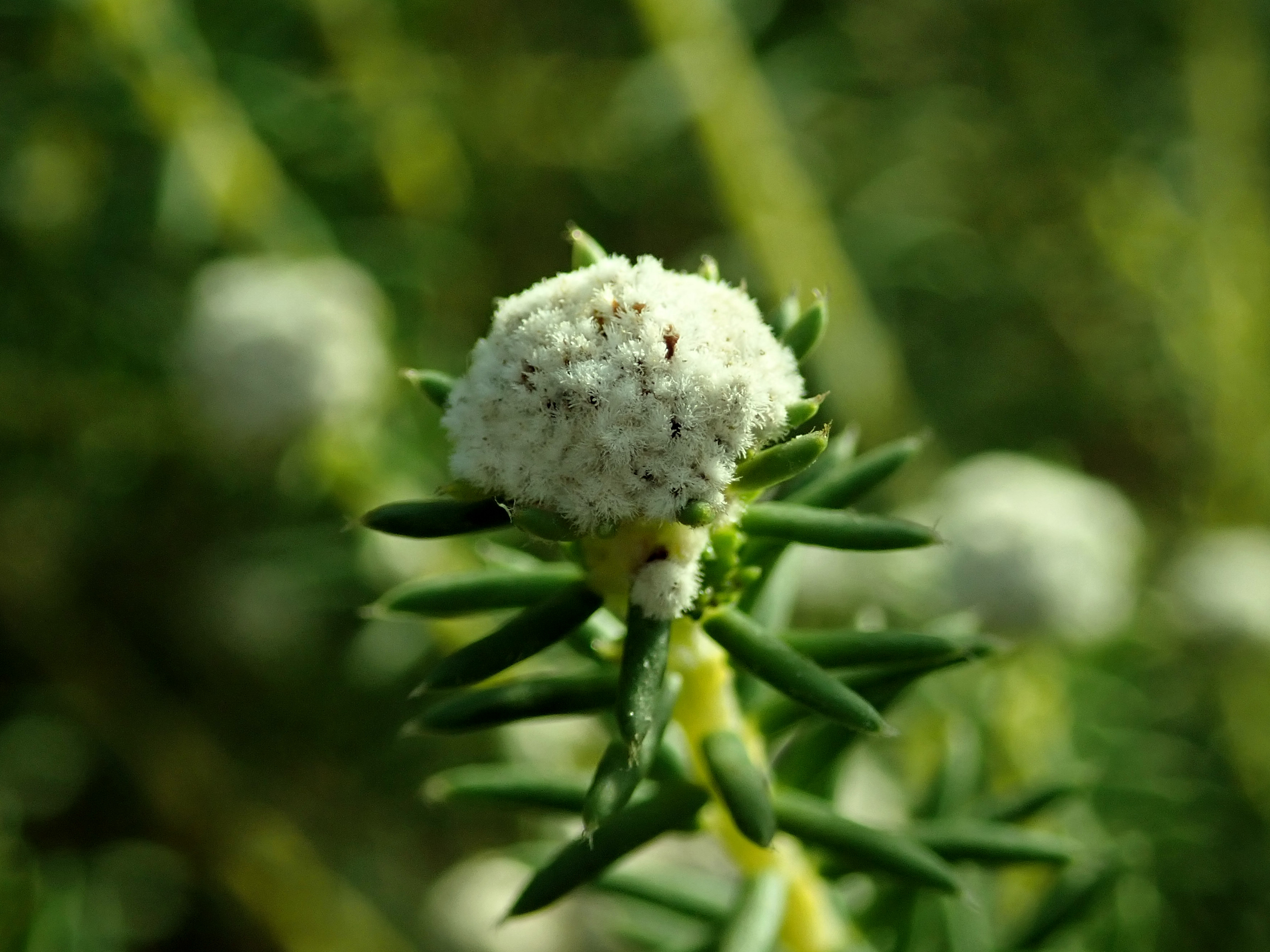 Phylica ericoides, botanical garden in Berlin.